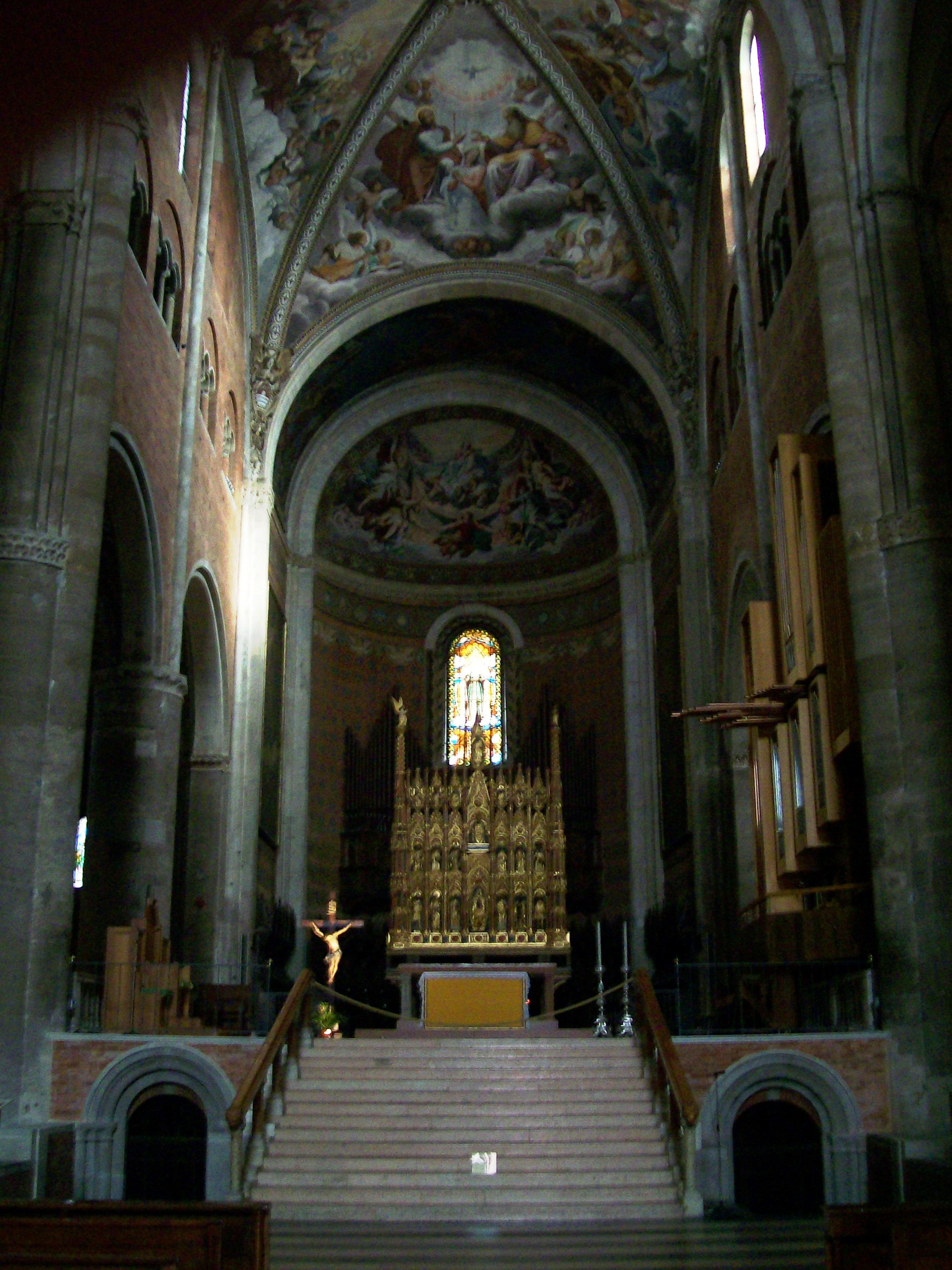 This is the inside of Cathedral of Piacenza